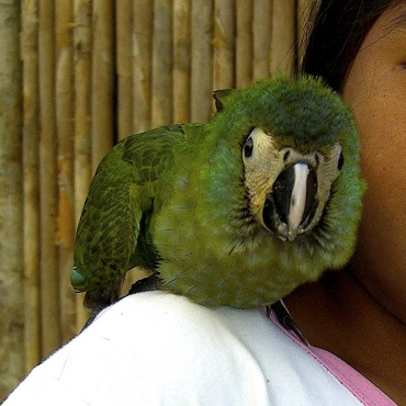 A little girl in San Martin, Peru with a pet juvenile Red-bellied Macaw on her right shoulder.